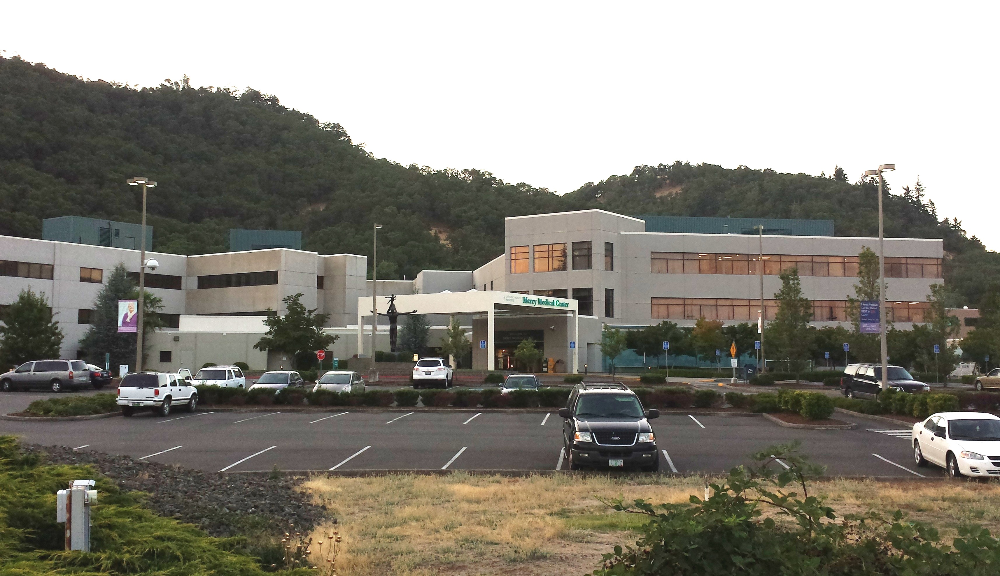 This is Mercy Medical Center, a hospital located in Roseburg, Oregon, USA.